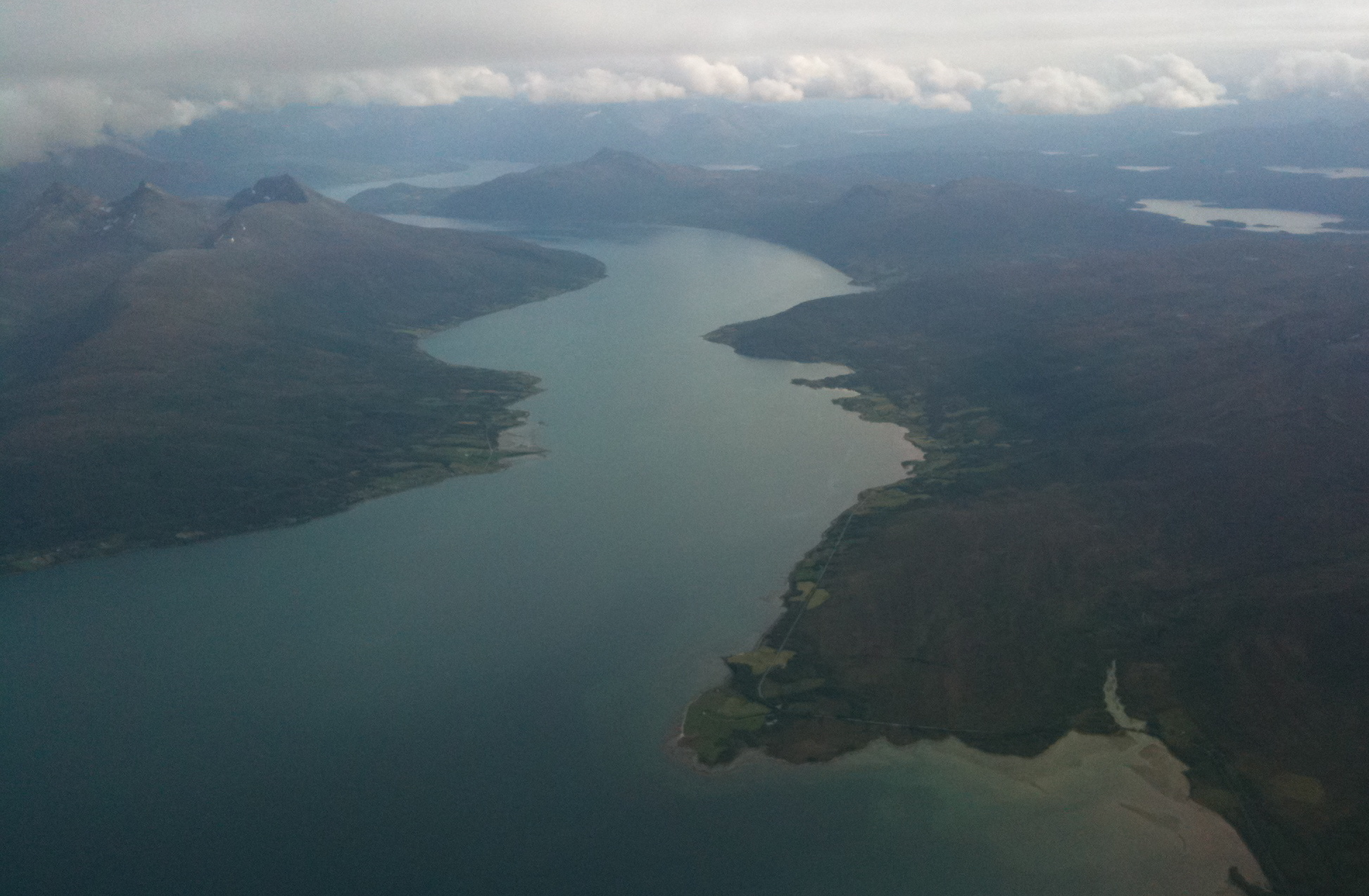 Balsfjorden a fjord in the municipality of Balsfjord in Troms, Norway